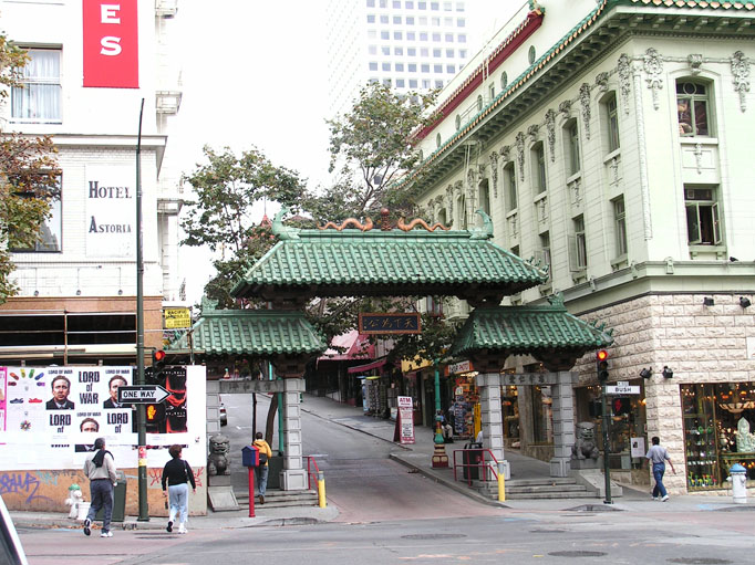 Entrance chinatown San Francisco